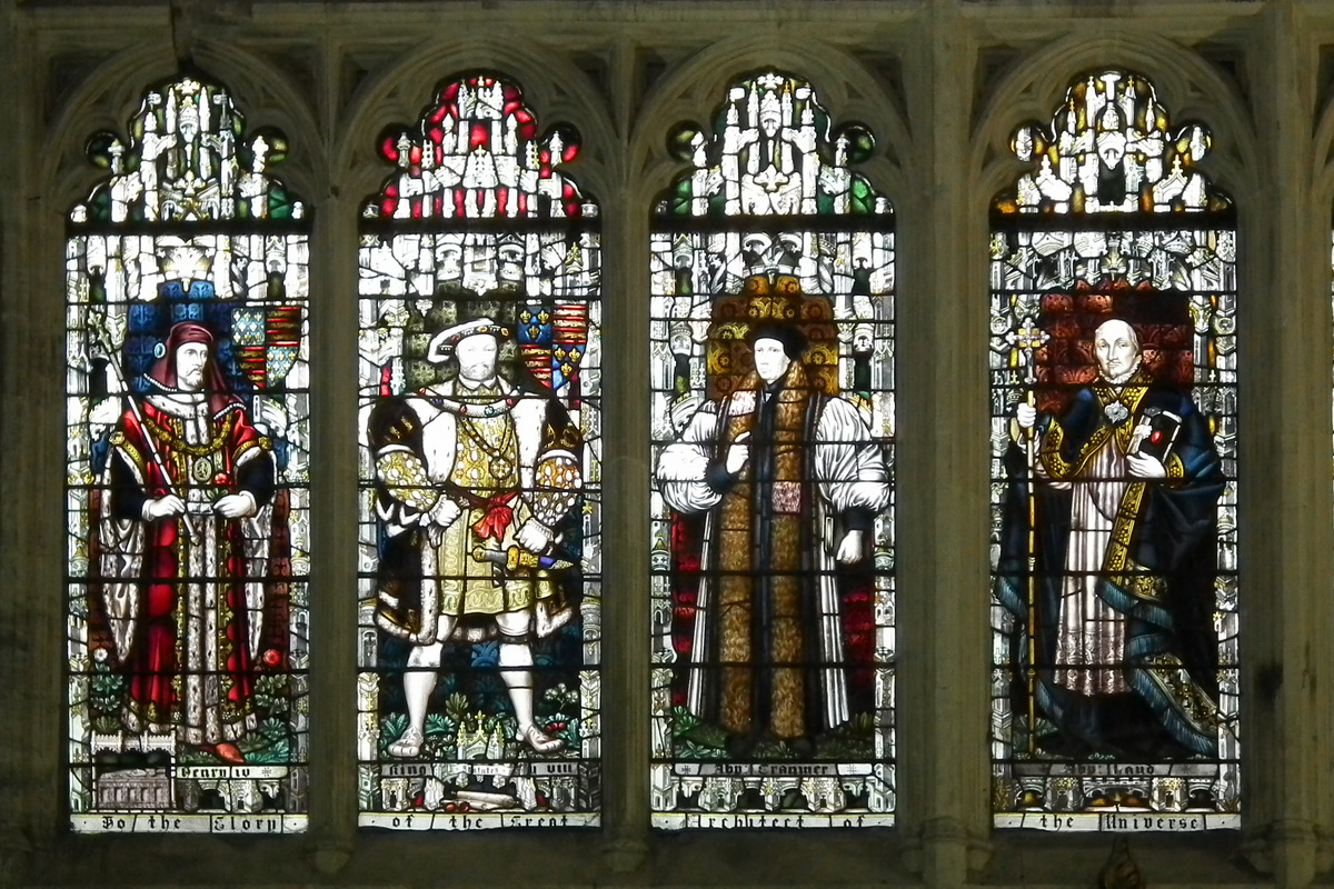 Stained glass windows in the Chapter house, Canterbury Cathedral, Canterbury, England